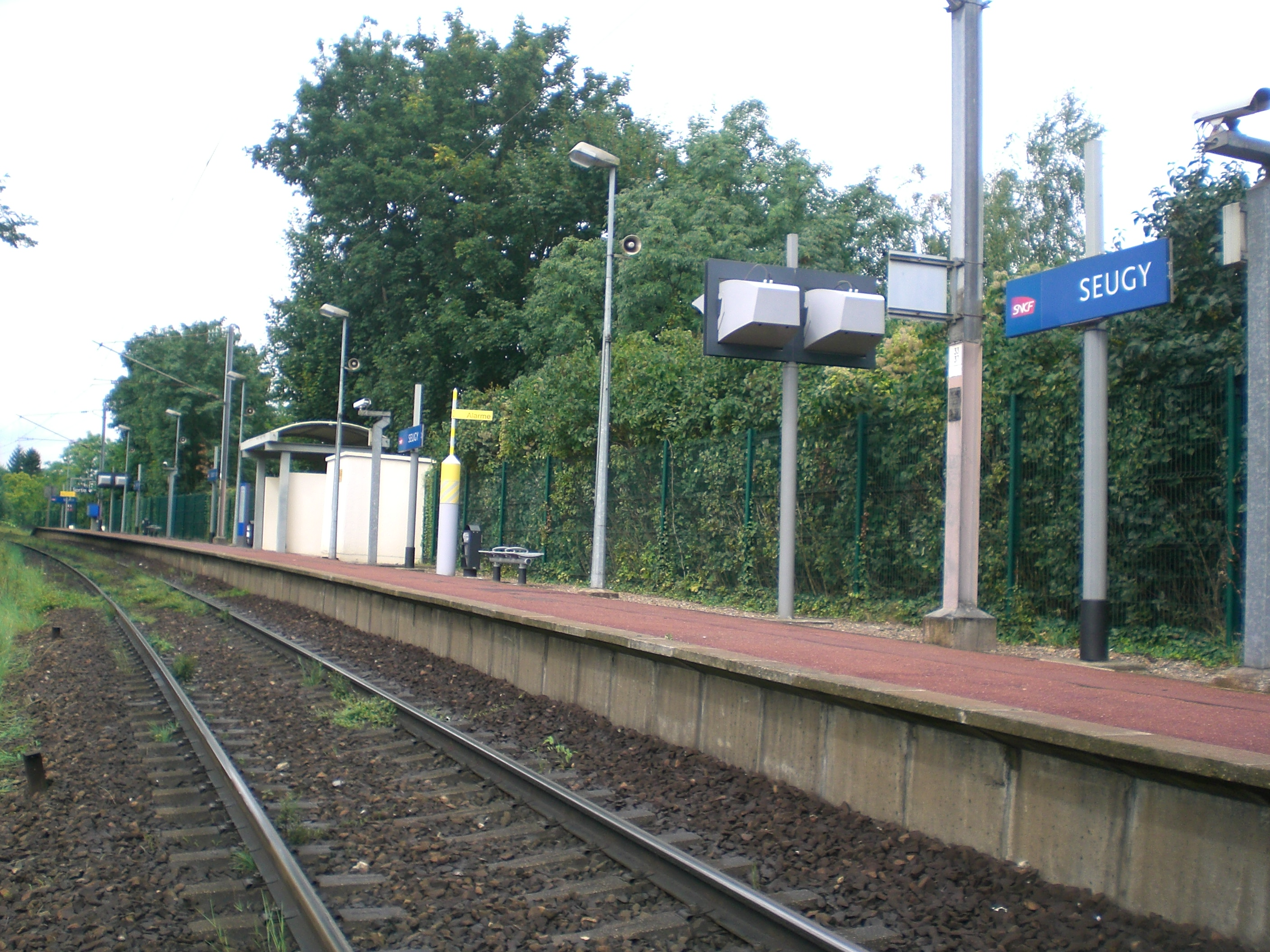 Train stations of Seugy